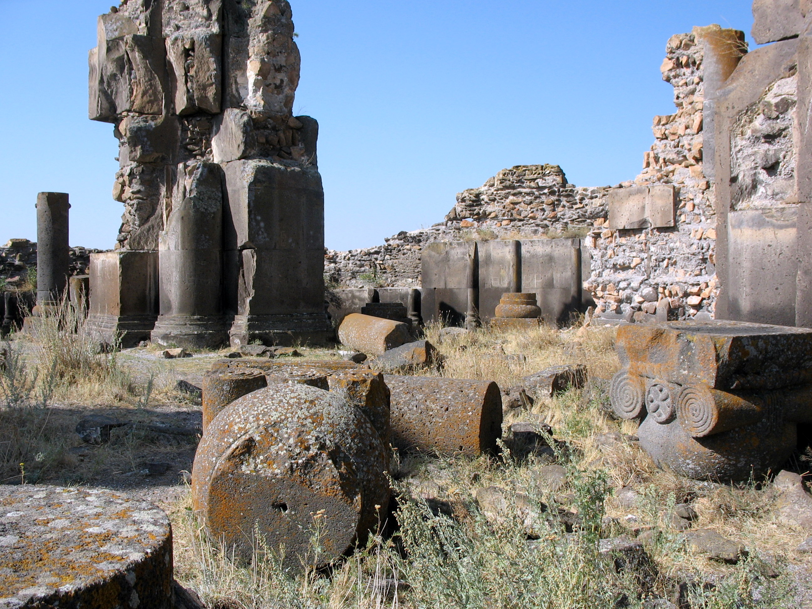 Church of Saint Gregory (King Gagik), Ani, Turkey.